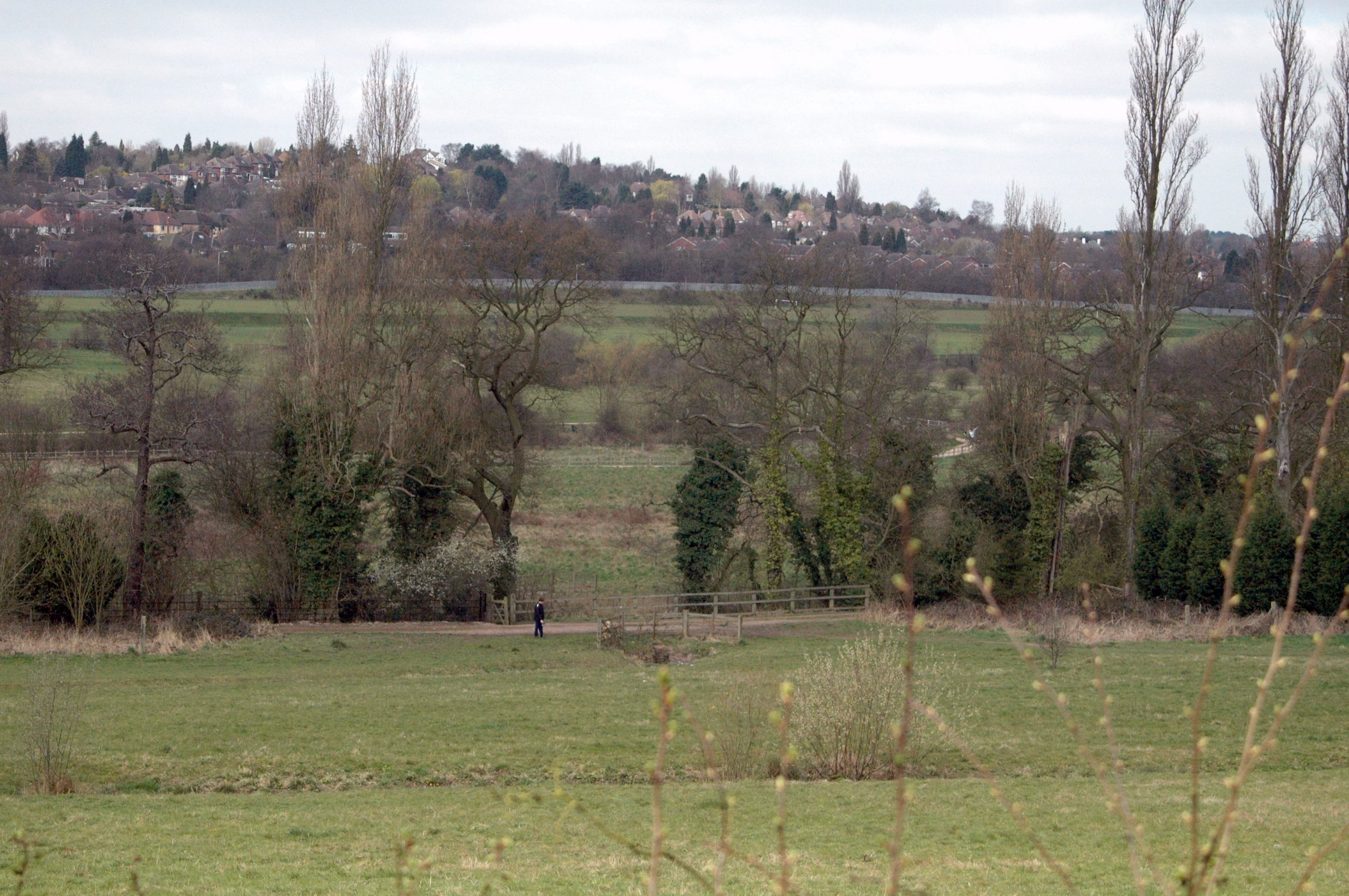 Created by Erebus555. This is New Hall Valley Country Park, looking across to the area of Maney.